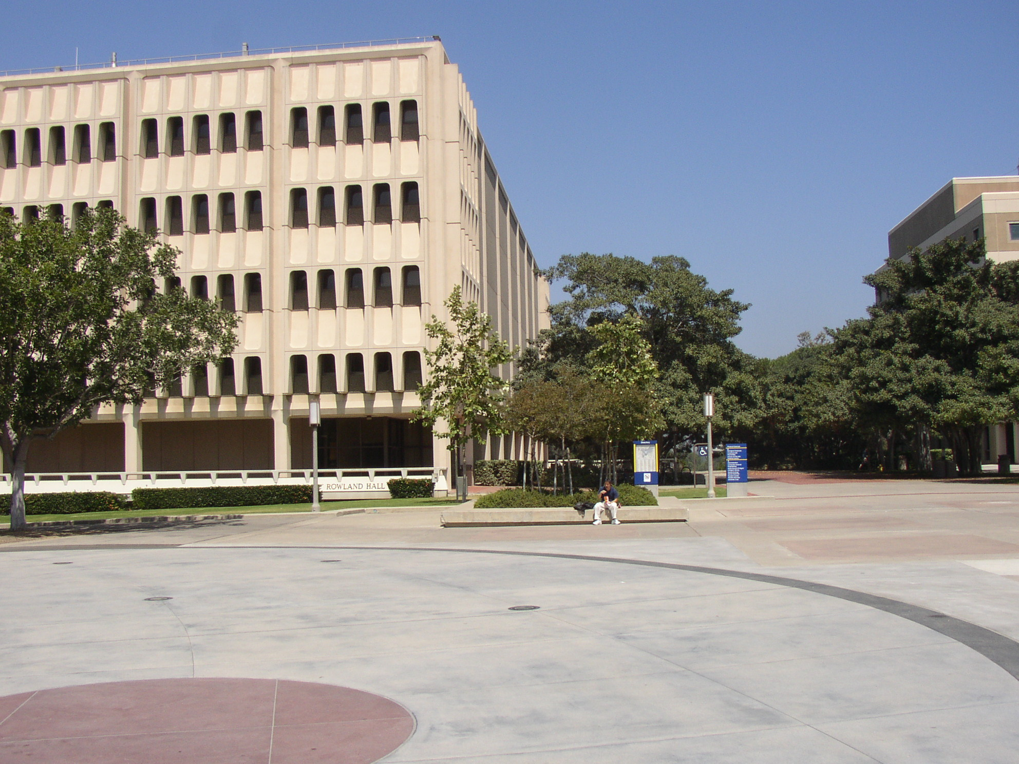 A picture of Rowland Hall at University of California. Part of the Physical Sciences section of campus. This is the main building for the Chemistry Department